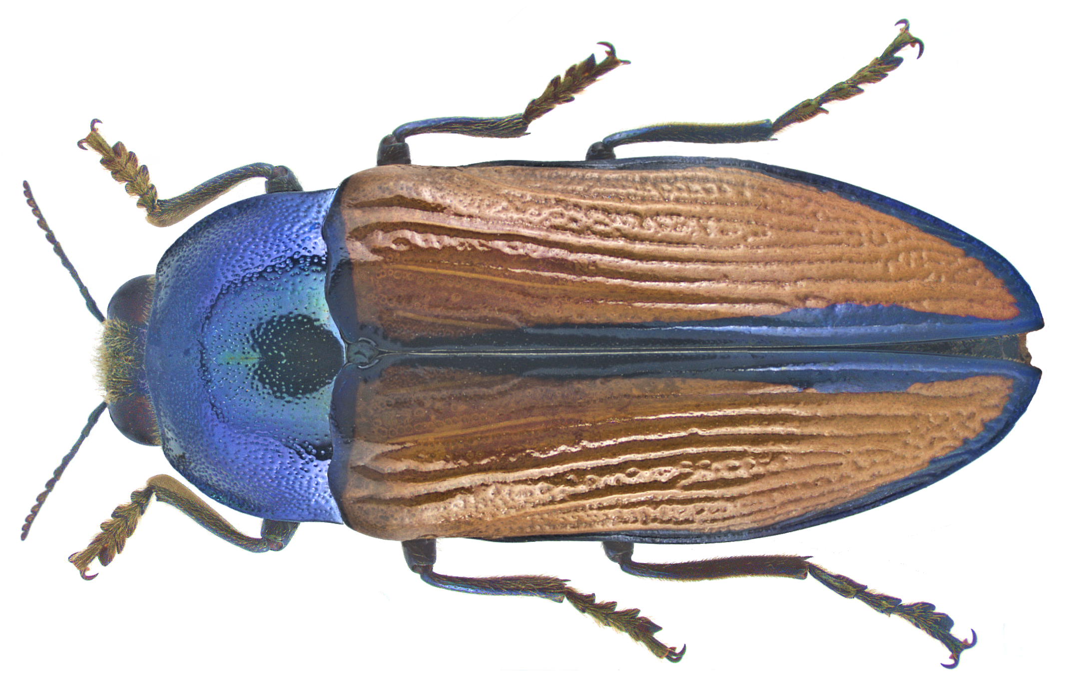 Family: Buprestidae Size: 30,0 mm Location: Australia, NSW, Lot 25 Commission Rd, Yengo NP, Howes Valley leg.det. Vr.R.Bejsak-Colloredo-Mansfeld, 2.XII.2013 Photo: U.Schmidt, 2015